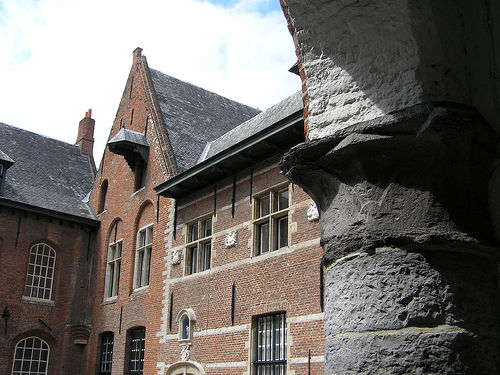 the medieval hospital in Courtrai